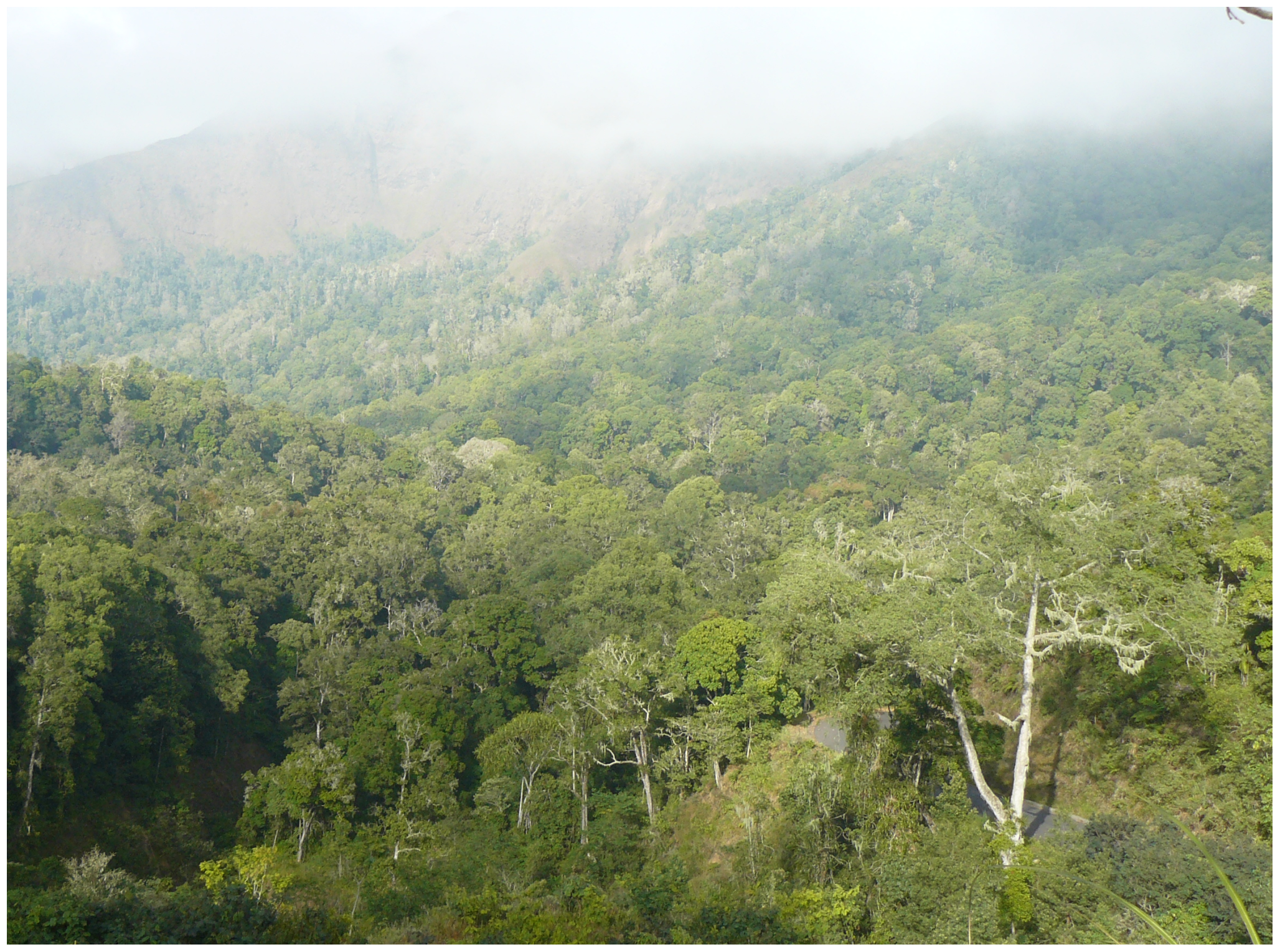 Habitat of Otus jolandae in the foothills of Gunung Rinjani, Sapit, Lombok, August 2008 (Philippe Verbelen).